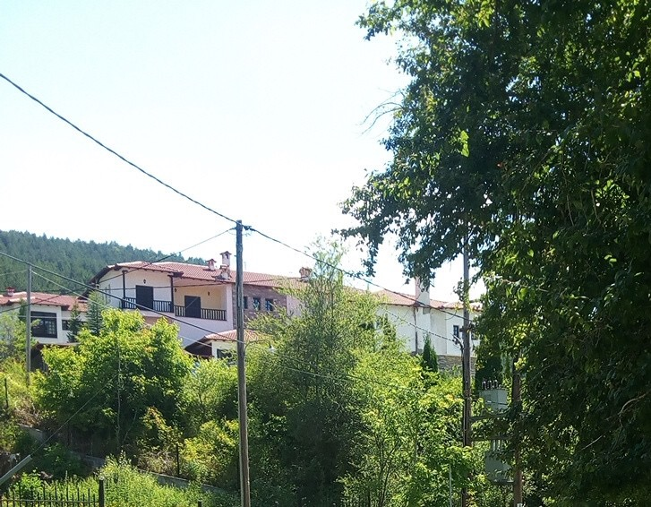 External view of the Galanos Hostel. Due to the surrounding fence, access was limited (Vlasti, Kozani, Greece).